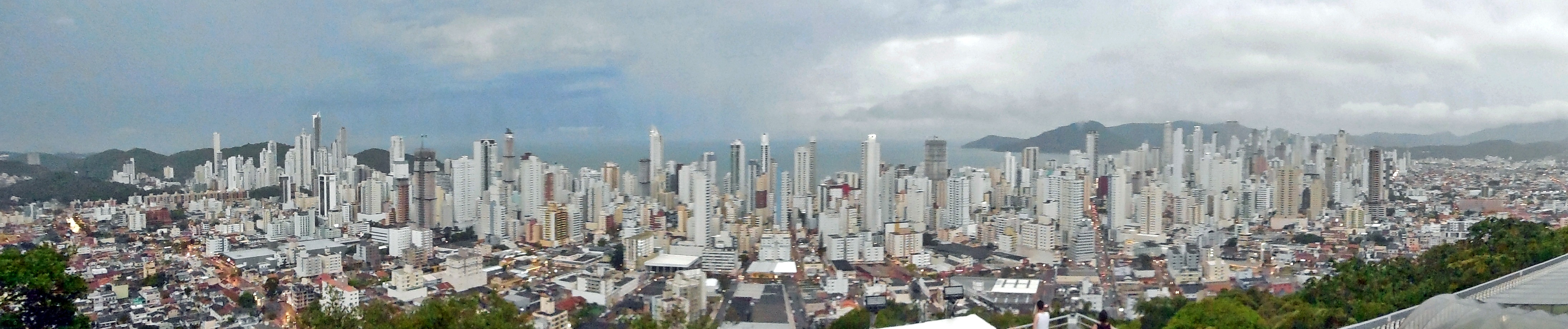 Panoramic of Balneário Camboriú, Santa Catarina, Brazil, seen from of the Cristo Luz.